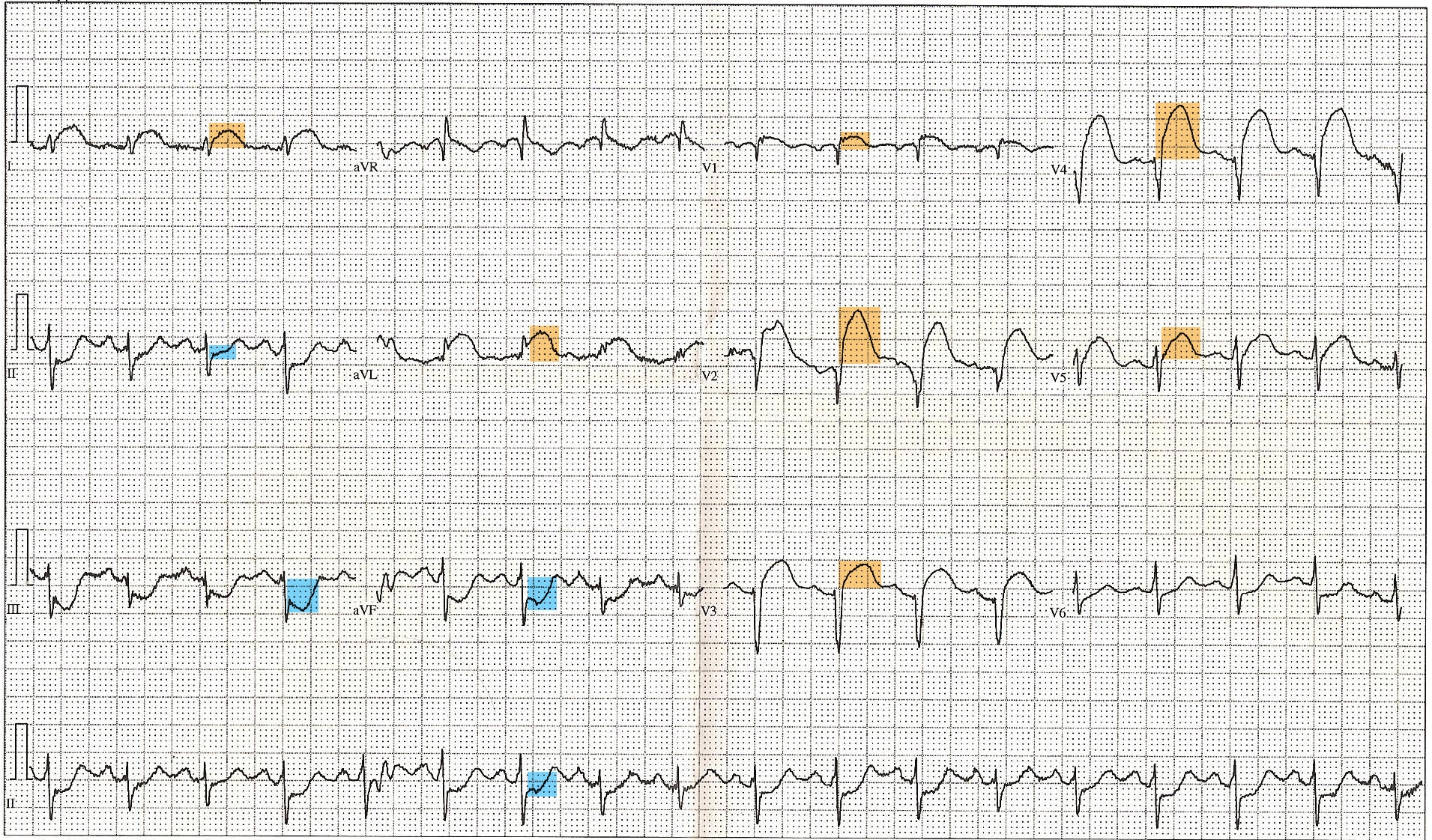 12 Lead ECG EKG showing ST Elevation (STEMI), Tachycardia, Anterior Fascicular Block, Anterior Infarct, Heart Attack. Color Key: ST Elevation in anterior leads=Orange, ST Depression in inferior leads=Blue